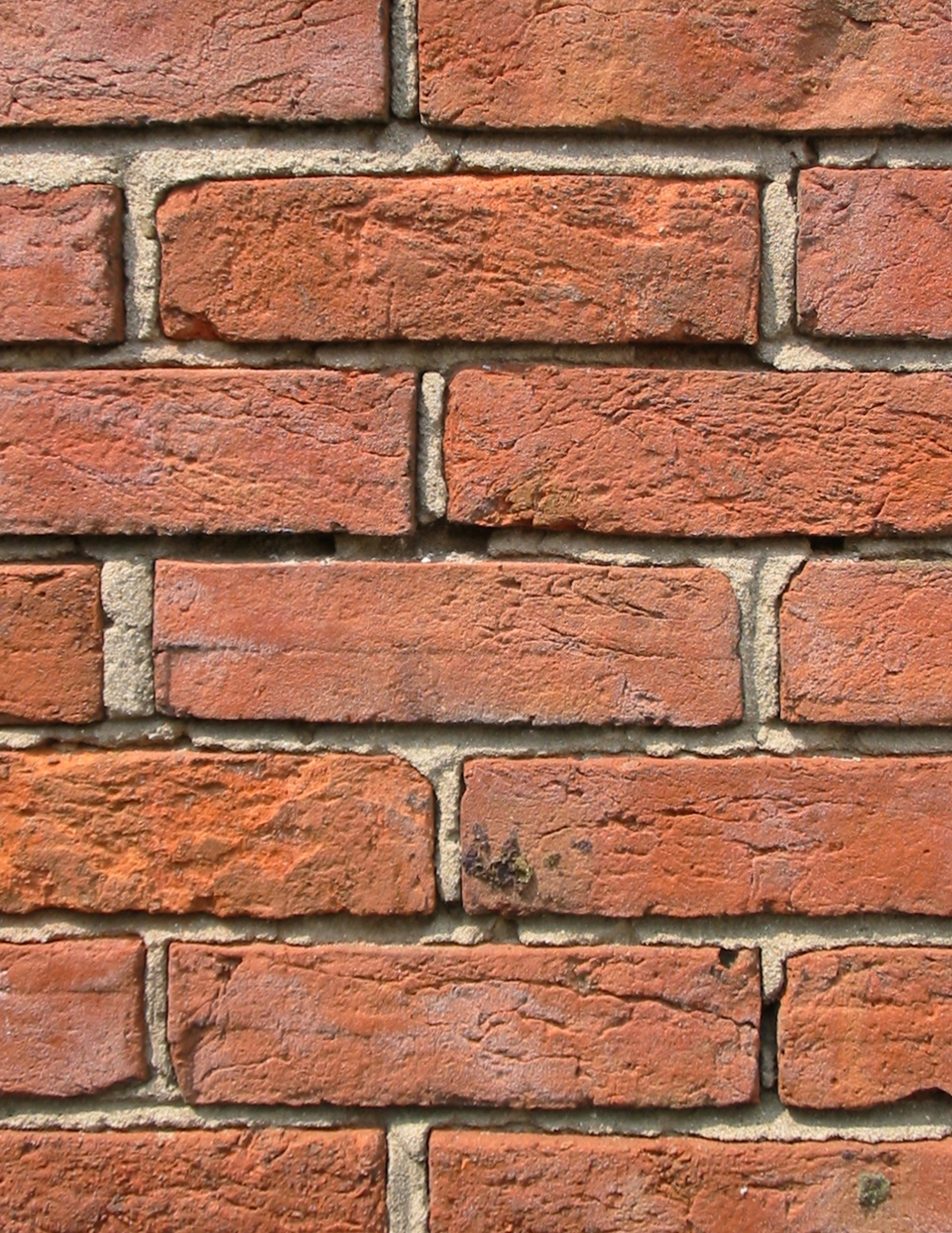 old brick wall